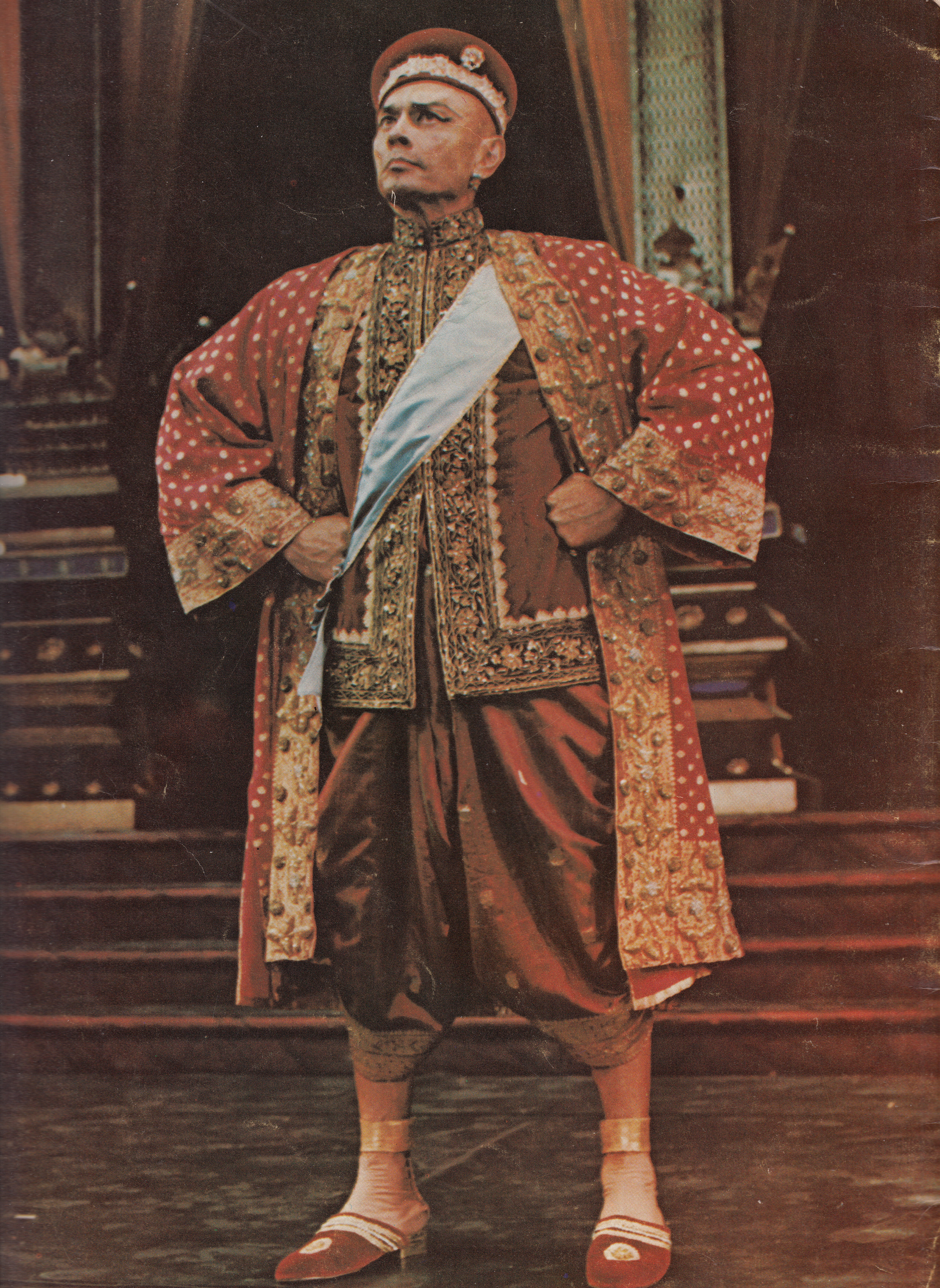 Yul Brynner as the King, from a 1977 souvenir program for The King and I. Lacks any copyright notice, so it is no longer under copyright. Image can be found here